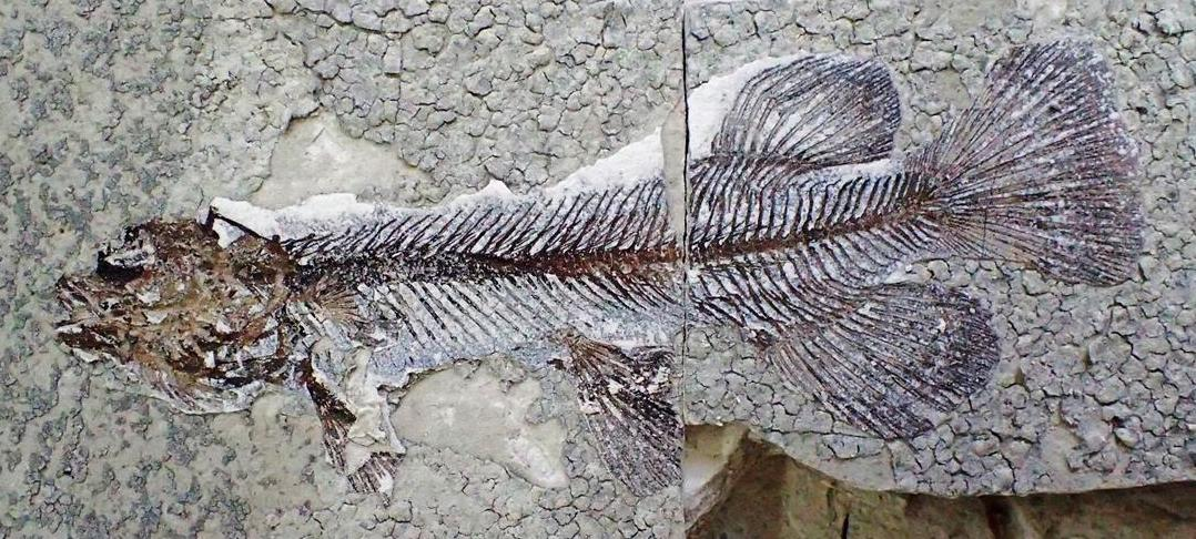 Galaxias effusus (Teleostei: Galaxiidae) holotype (OU22650) from Foulden Maar Diatomite, Early Miocene, Otago, New Zealand (cf. Lee et al., 2007, J. R. Soc. N. Z. 37(3):109-130